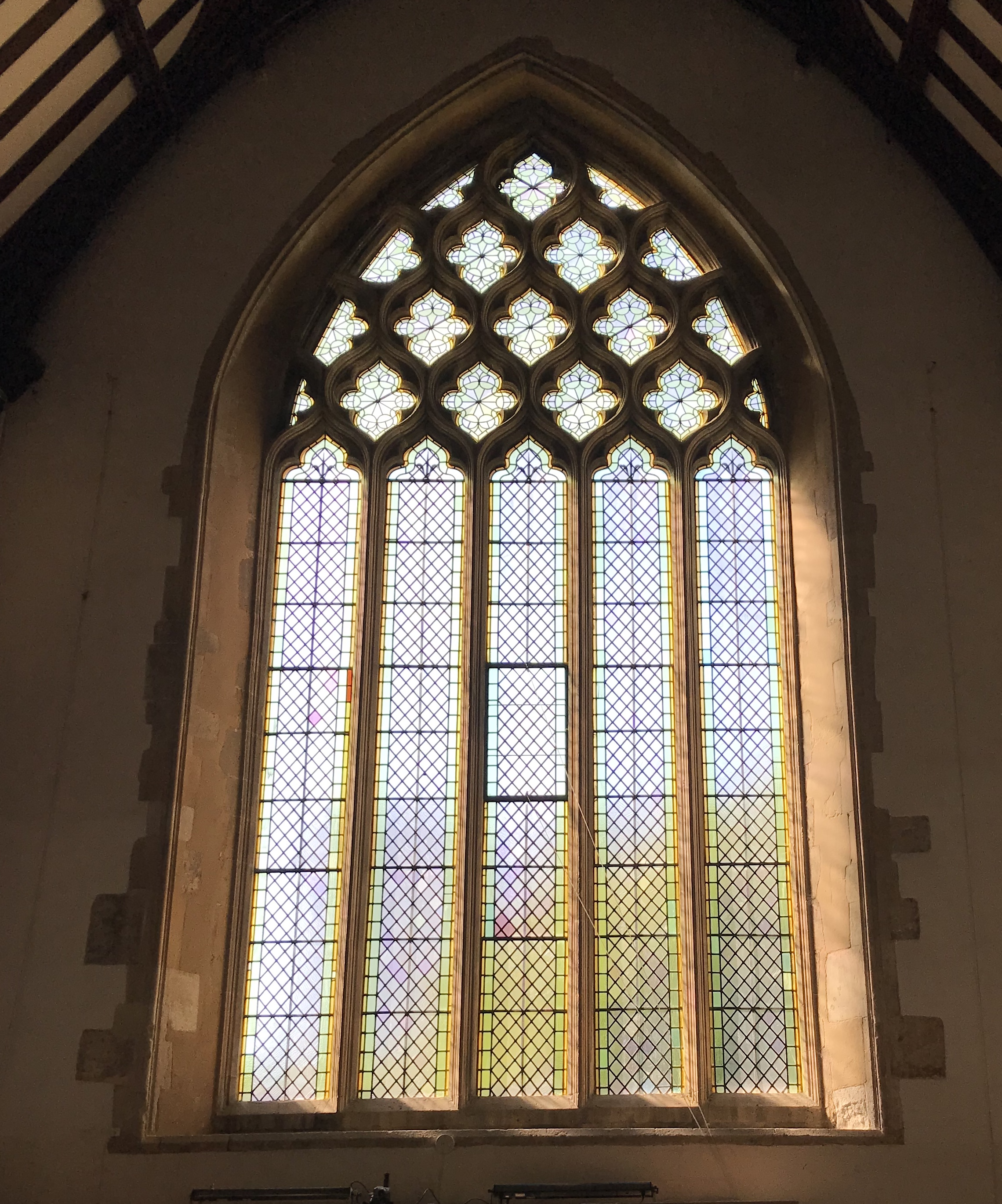 The extremely fine West Window in Greyfriars Church in Reading in Berkshire is of 5 lights in a decorated style with reticulated tracery